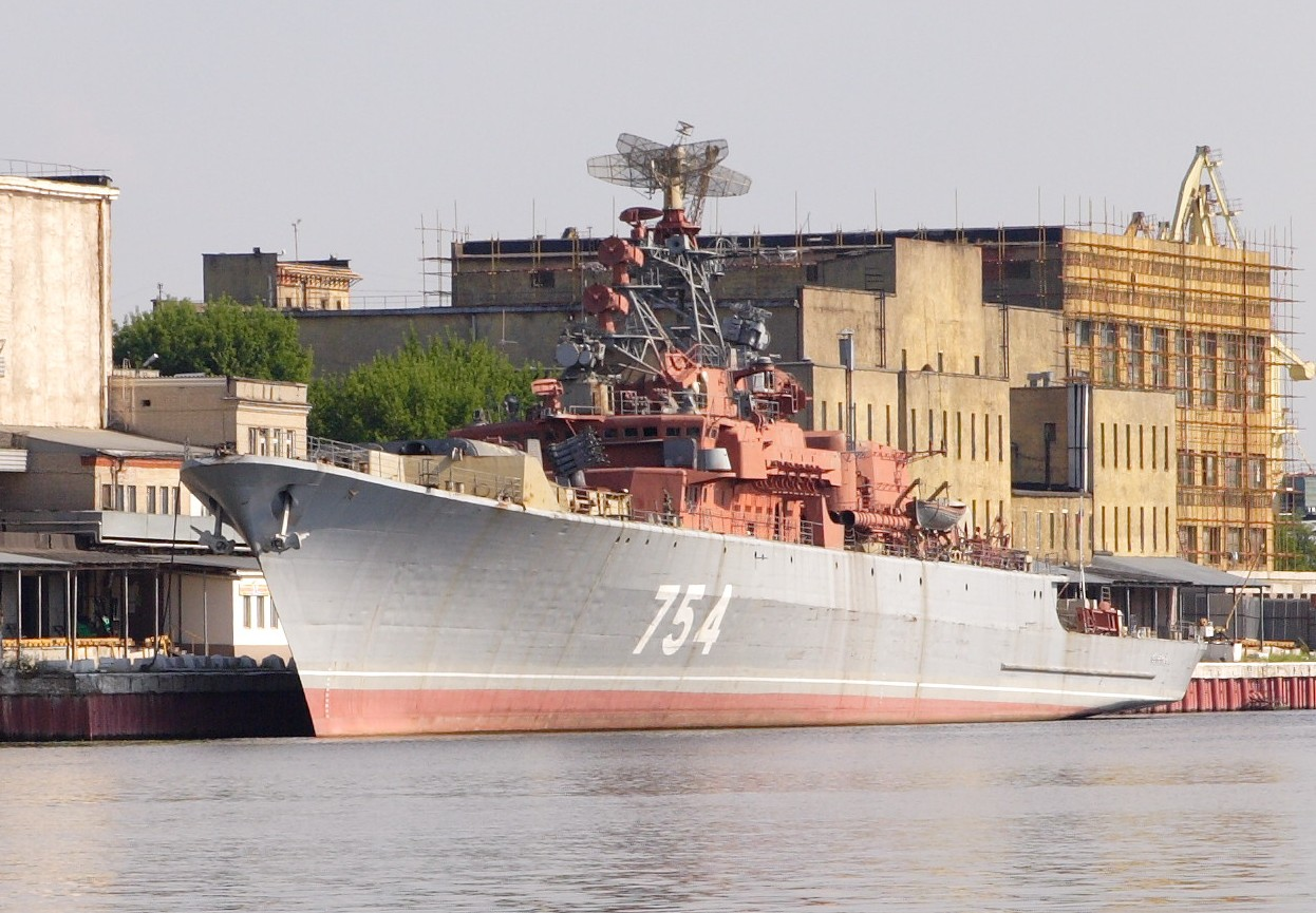 Decomissioned soviet and russian frigate "Druzhniy" of Bditel'ny class (project 1135, Krivyak-I) in Moscow.